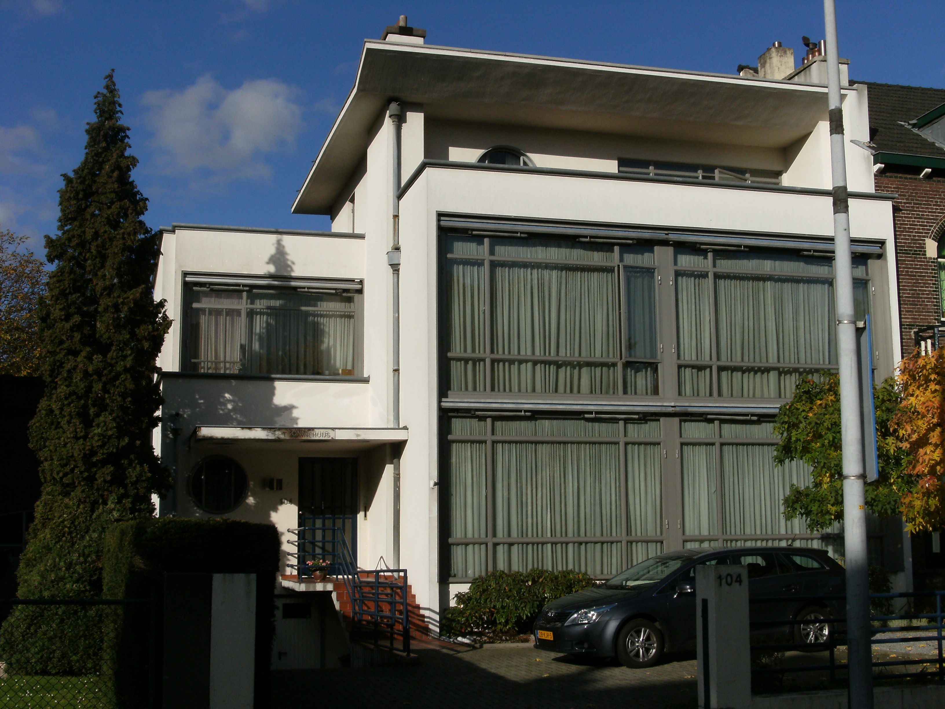 Sonnehuys, urban villa by architect Frits Peutz.